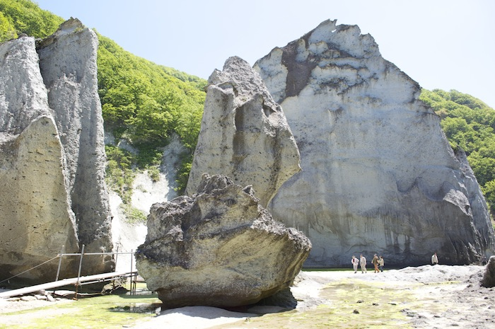 Hotoke-Ga-Ura